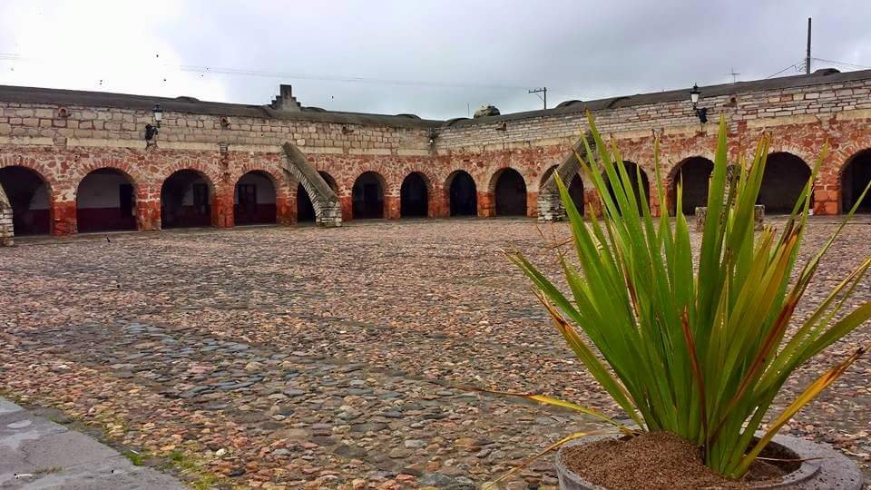 Fort of Ojuelosm, built in 1569.